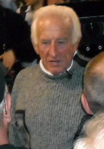 Milwaukee Brewers broadcaster Bob Uecker at Miller Park in 2011. This file has been extracted from another file: Bob Uecker 2011.jpg